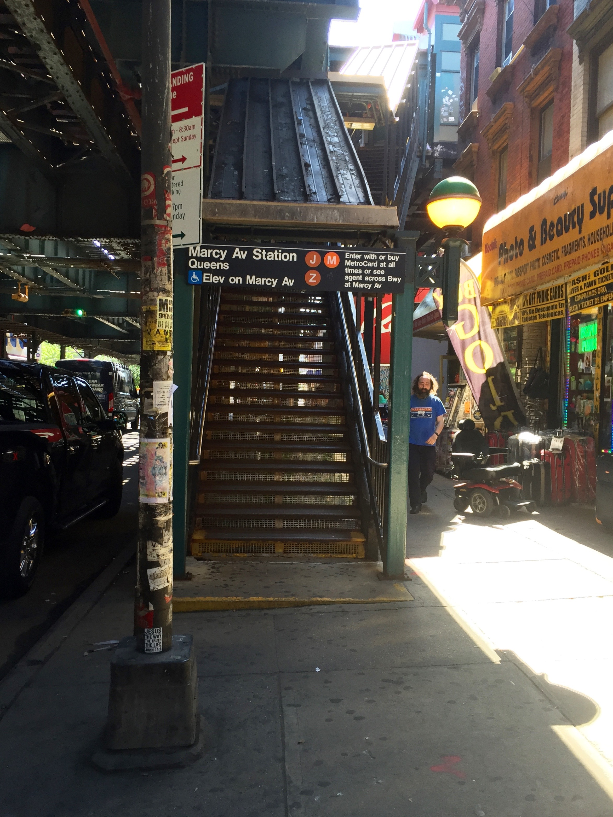 SW Corner stairs at Marcy Avenue and Broadway on the J/M/Z